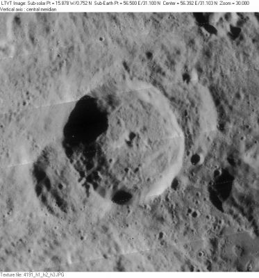 Burckhardt is in the center, overlaying two older, but smaller, craters knowns as Burckhardt E (lower left "ear") and Burckhardt F (upper right "ear").